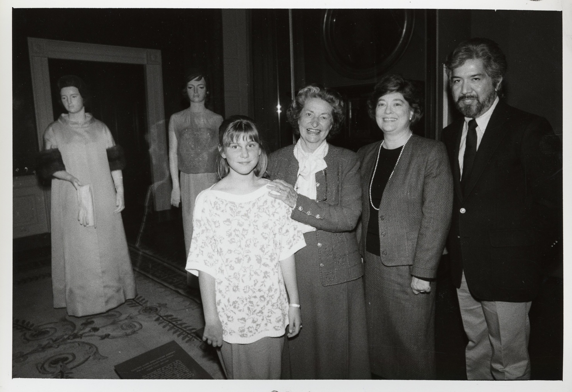 Lady Bird Johnson recently visited the National Museum of American History to show her inaugural gown, on view in the First Ladies Hall, to her granddaughter, Claudia Nugent. Pictured here, with the mannequin wearing her gown at left, are granddaughter Claudia, Mrs. Lyndon Baines Johnson, Social and Cultural History Department curator Edith Mayo and Manuel Melendez (Public Programs Department). Also visible is the mannequin wearing Jacqueline Kennedy's gown. "Record Unit 371, Box 5, Folder May 1987"